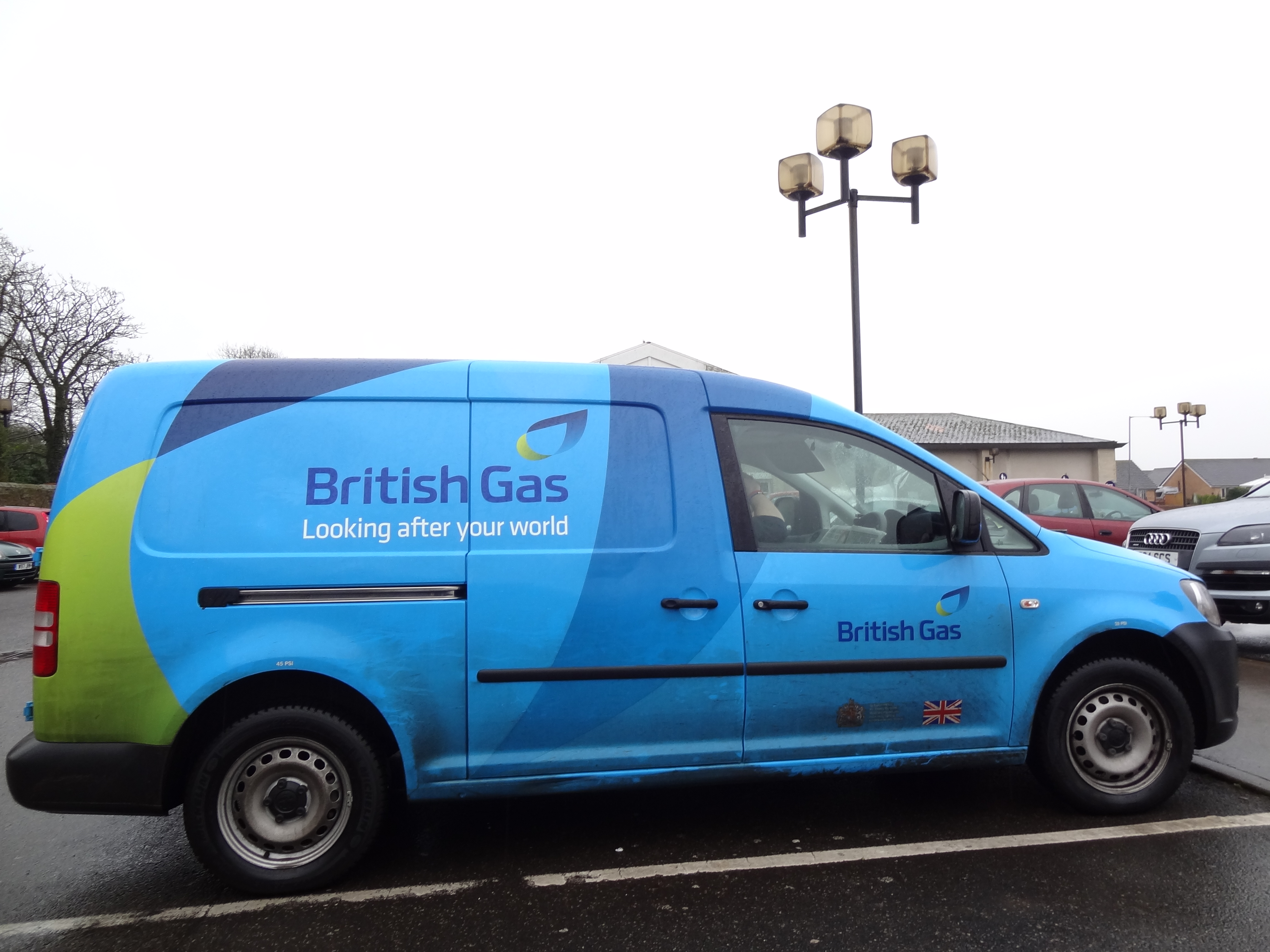 British gas van